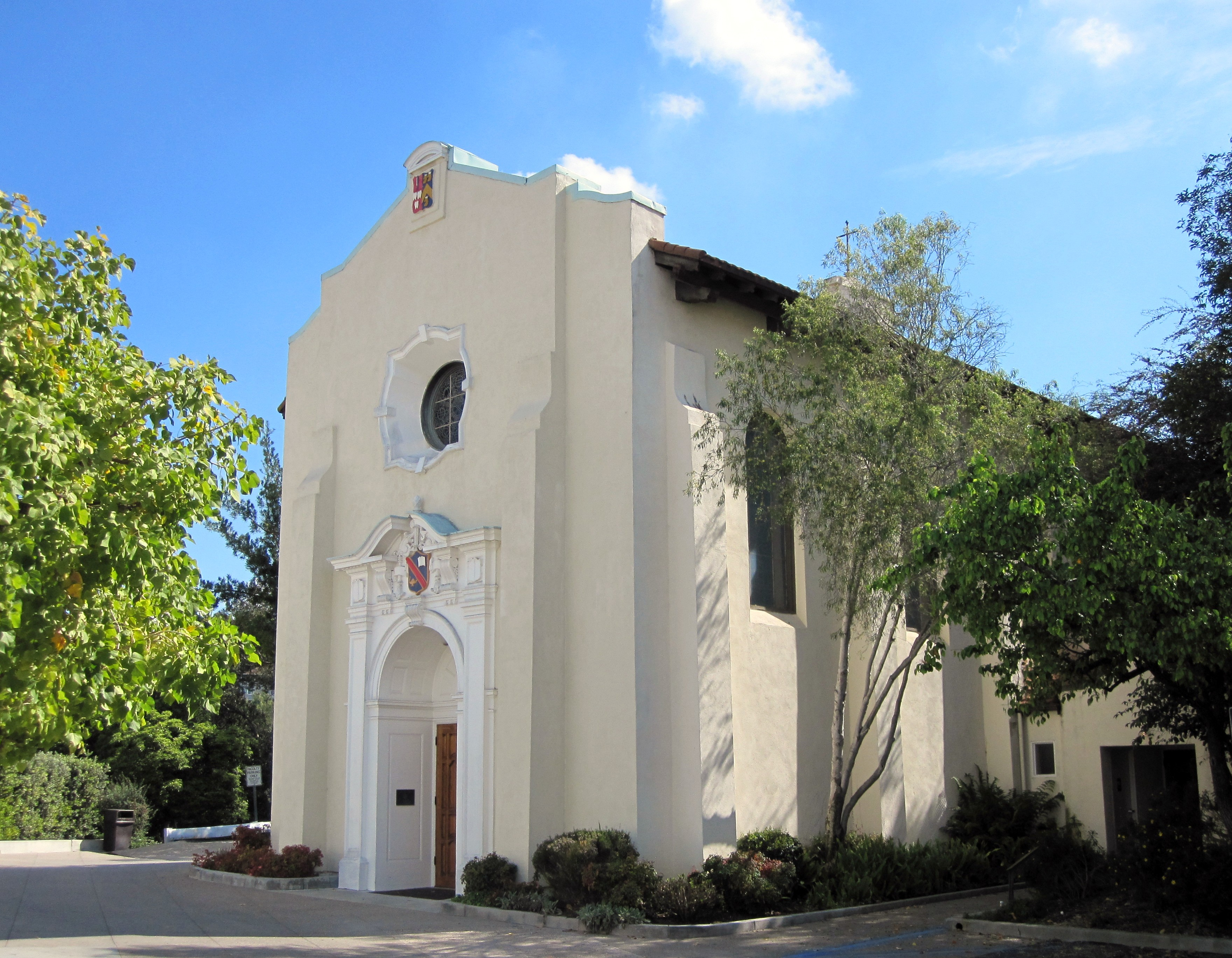 Saint Saviour's Chapel, Harvard-Westlake School, Studio City, Los Angeles, California, United States.